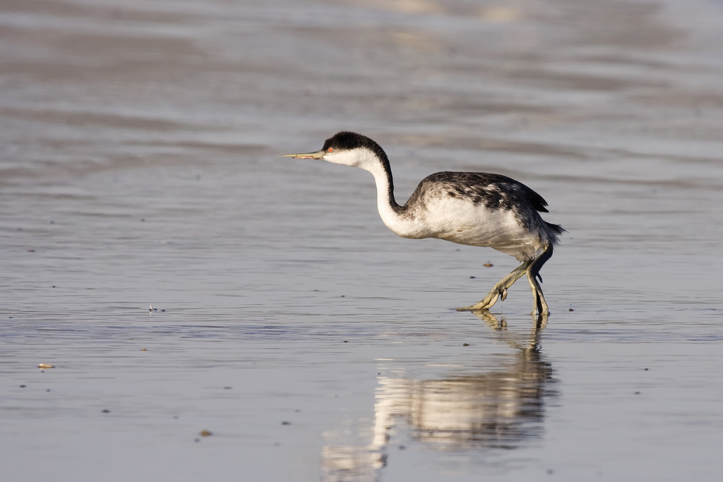 Western Grebe (Aechmophorus occidentalis) clumsily trying to make it back into the surf on Morro Strand State Beach in Morro Bay. 40D with 100-400L hand held. A close look appears that his/her bottom beak is broken off.